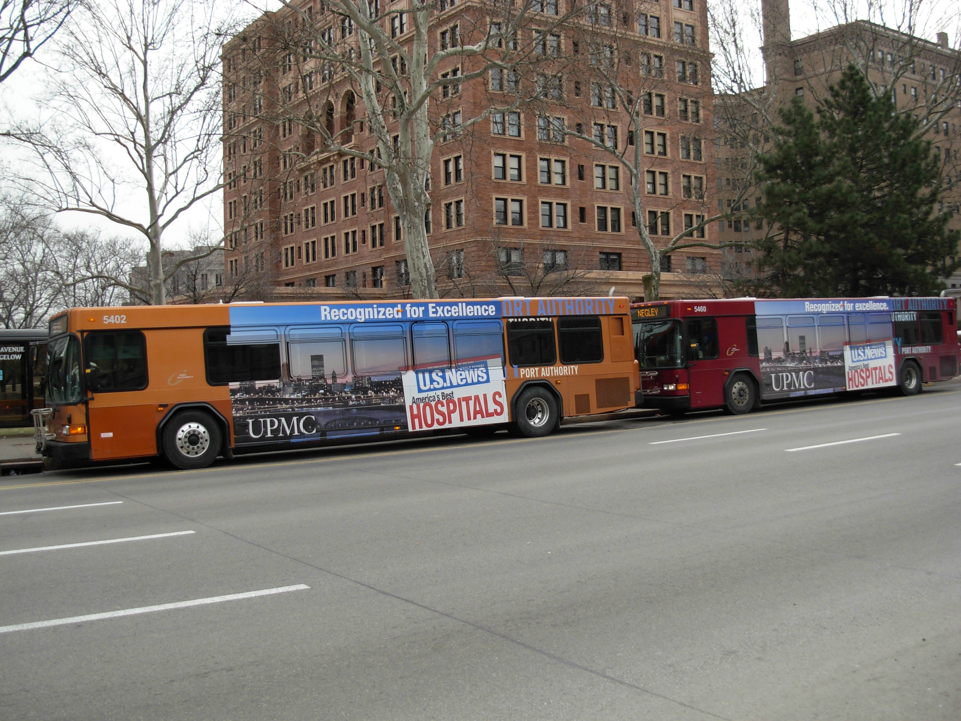 Port Authority bus, Pittsburgh. William Pitt Union of Pitt in the background. Photo by myself.